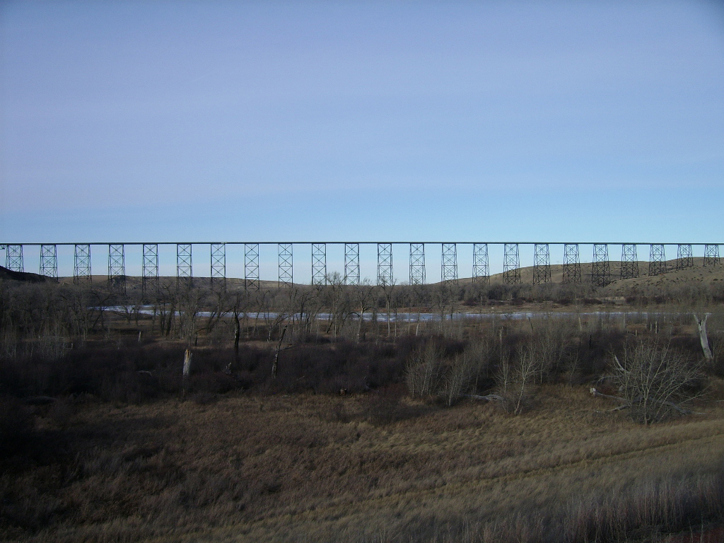 A photograph of the Lethbridge Viaduct during midday. Photograph taken from the south of the viaduct, near Whoop-up Drive, on the west side of the Oldman River.